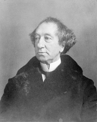 Portrait of Sir John Alexander Macdonald